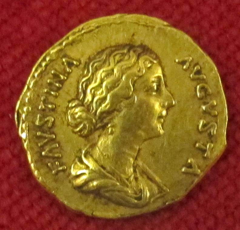 Ancient Roman coins in the Museo archeologico nazionale (Florence)